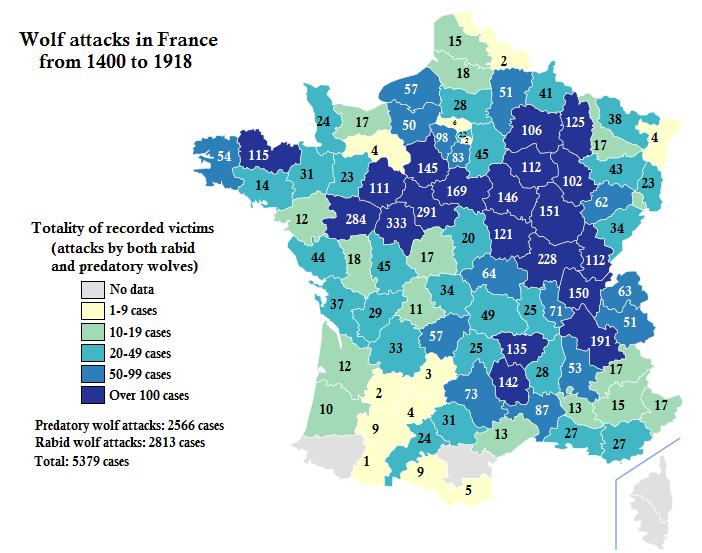 Wolf attacks in France from 1400 to 1918 (attacks by predatory and rabid wolves). Predatory attacks: 2566 cases : Rabid attacks = 2813 cases.